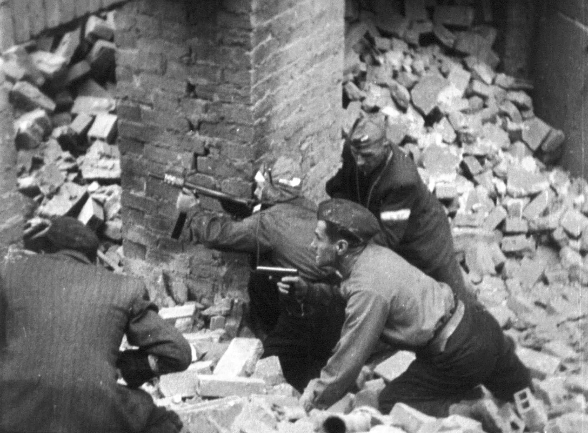 Armia Krajowa soldiers fighting during the Warsaw Uprising. One man is armed with Błyskawica machine pistol.